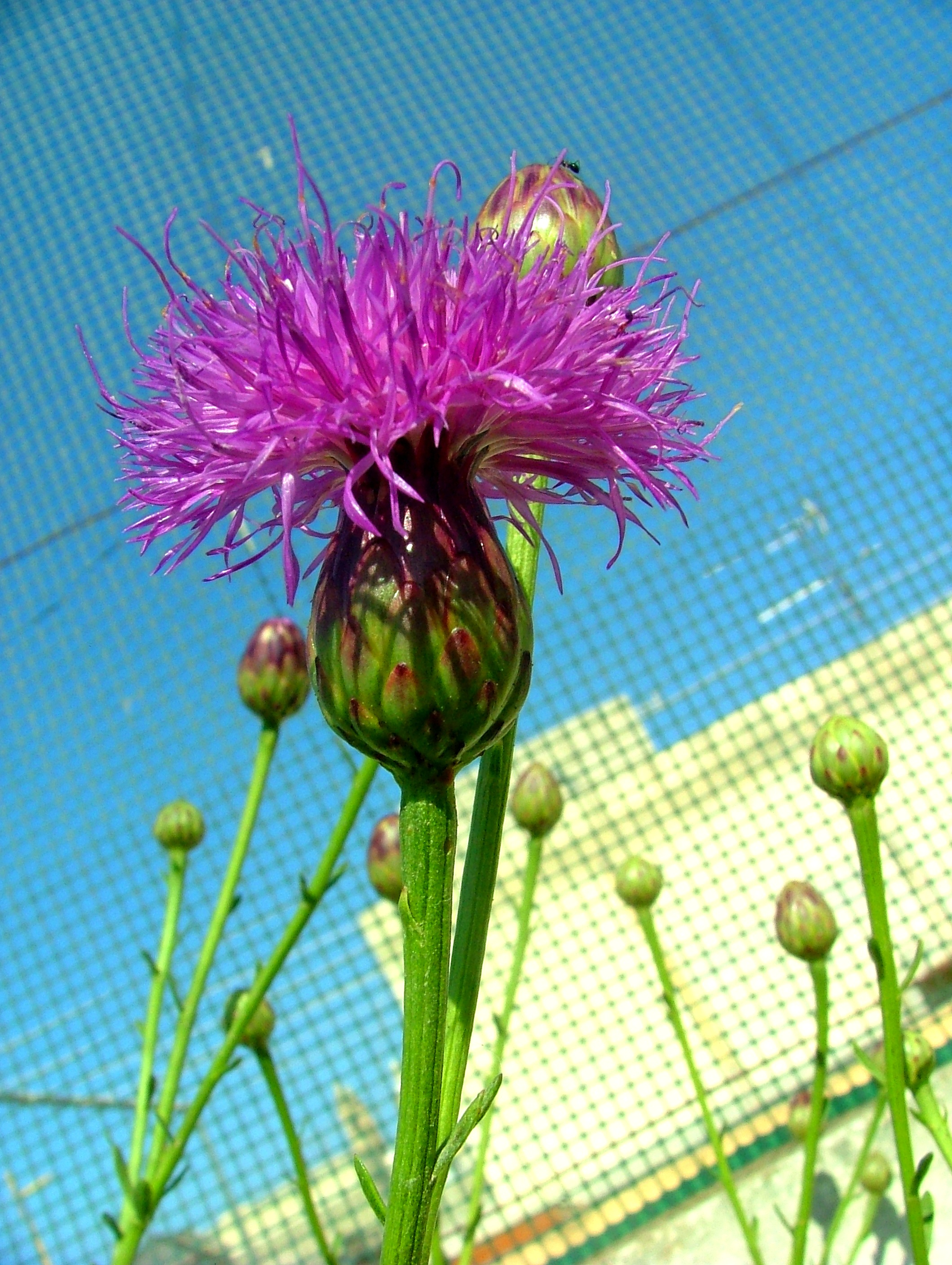 Maltese Rock Century inflorescense stalk Cultivated specimen photo: Arnold Sciberras